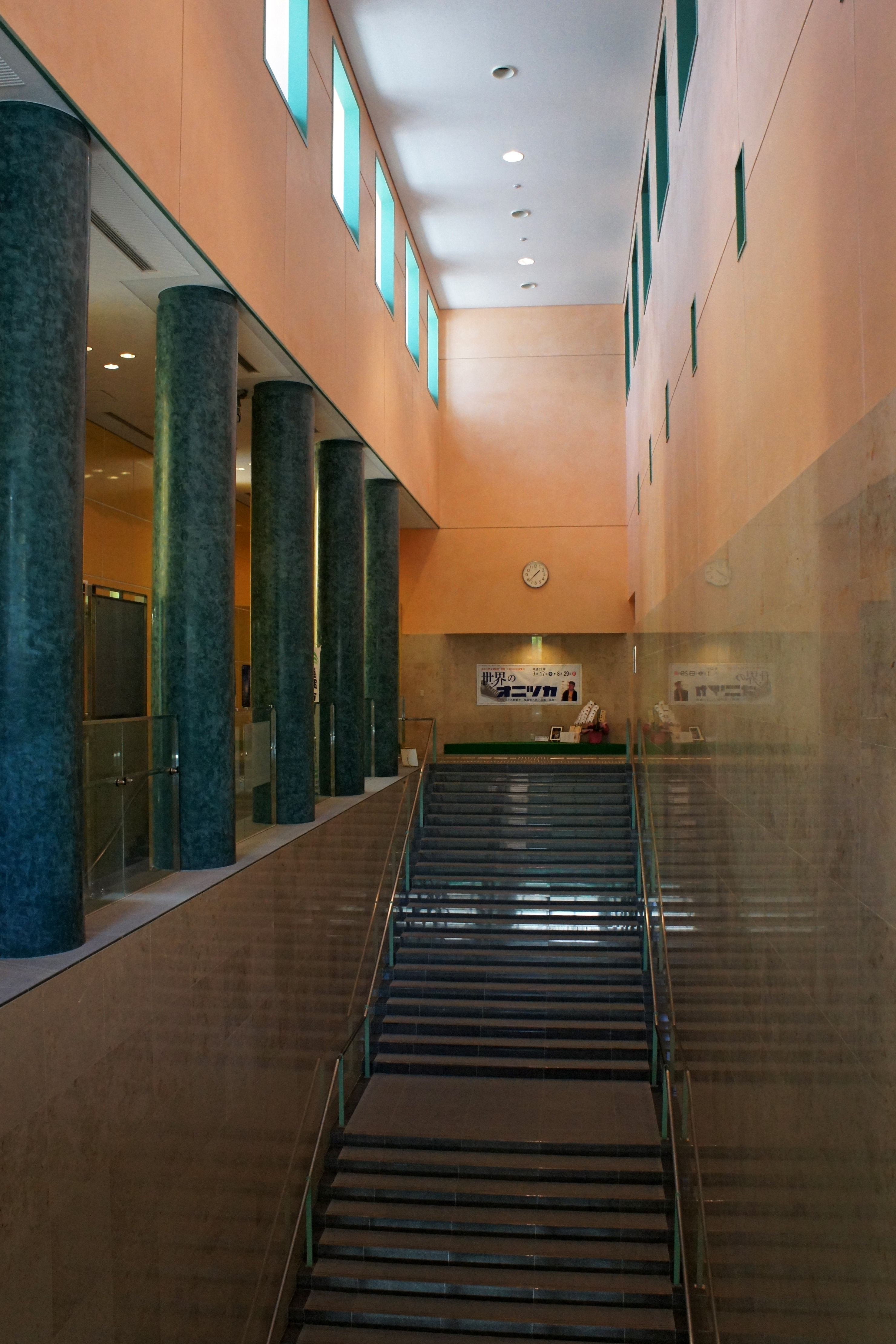 Tottori City Historical Museum in Tottori, Tottori prefecture, Japan.